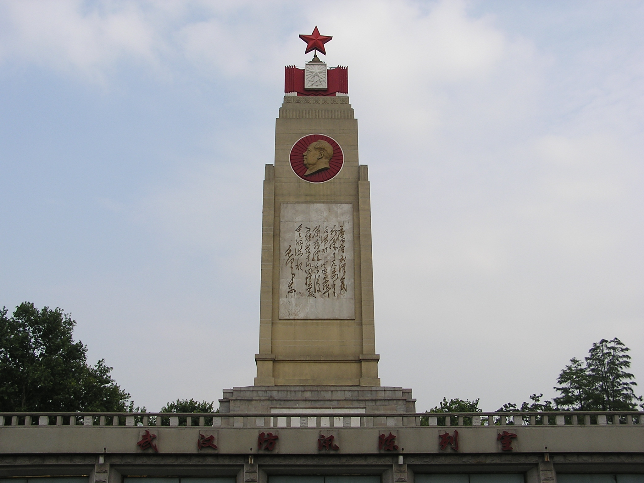 Monument to Wuhan's people overcoming the Yangtze Flood of 1954, with parts of Mao's poem "Swimming" inscribed.